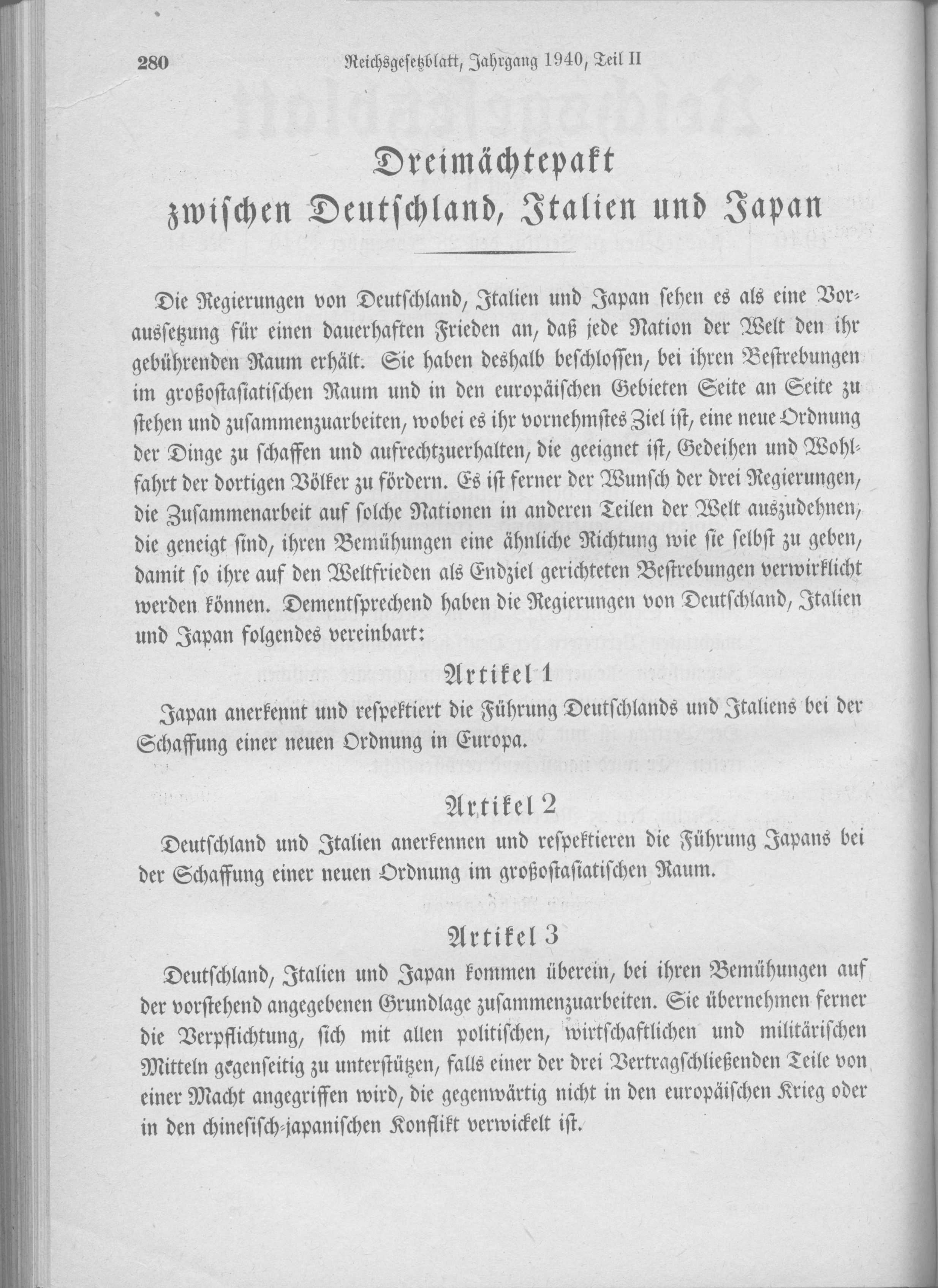 Scan from the Imperial Law Gazette of Germany, 1940, part 2